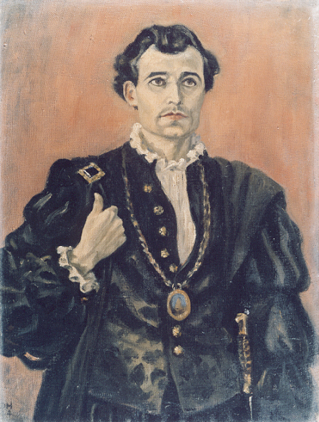 Michael Goodliffe. Painted by Aubrey Davidson-Houston in the role of Hamlet, performed while a POW in Germany.